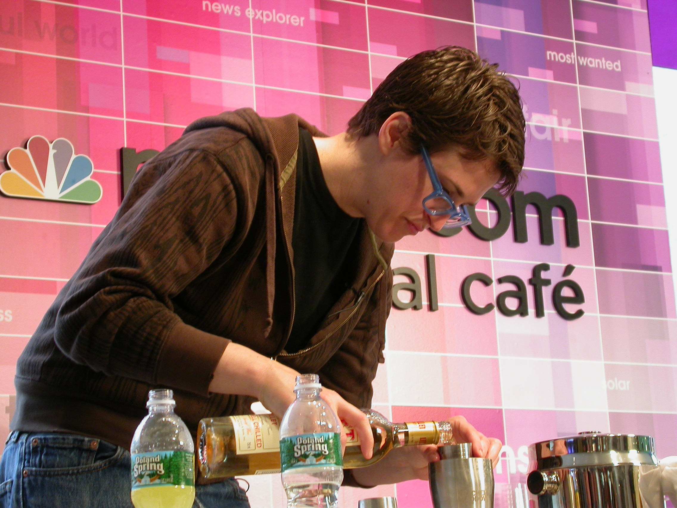 Rachel Maddow makes cocktails during the show. Recording diggnation episode #207 at the Digital Cafe in Rockefeller Center.